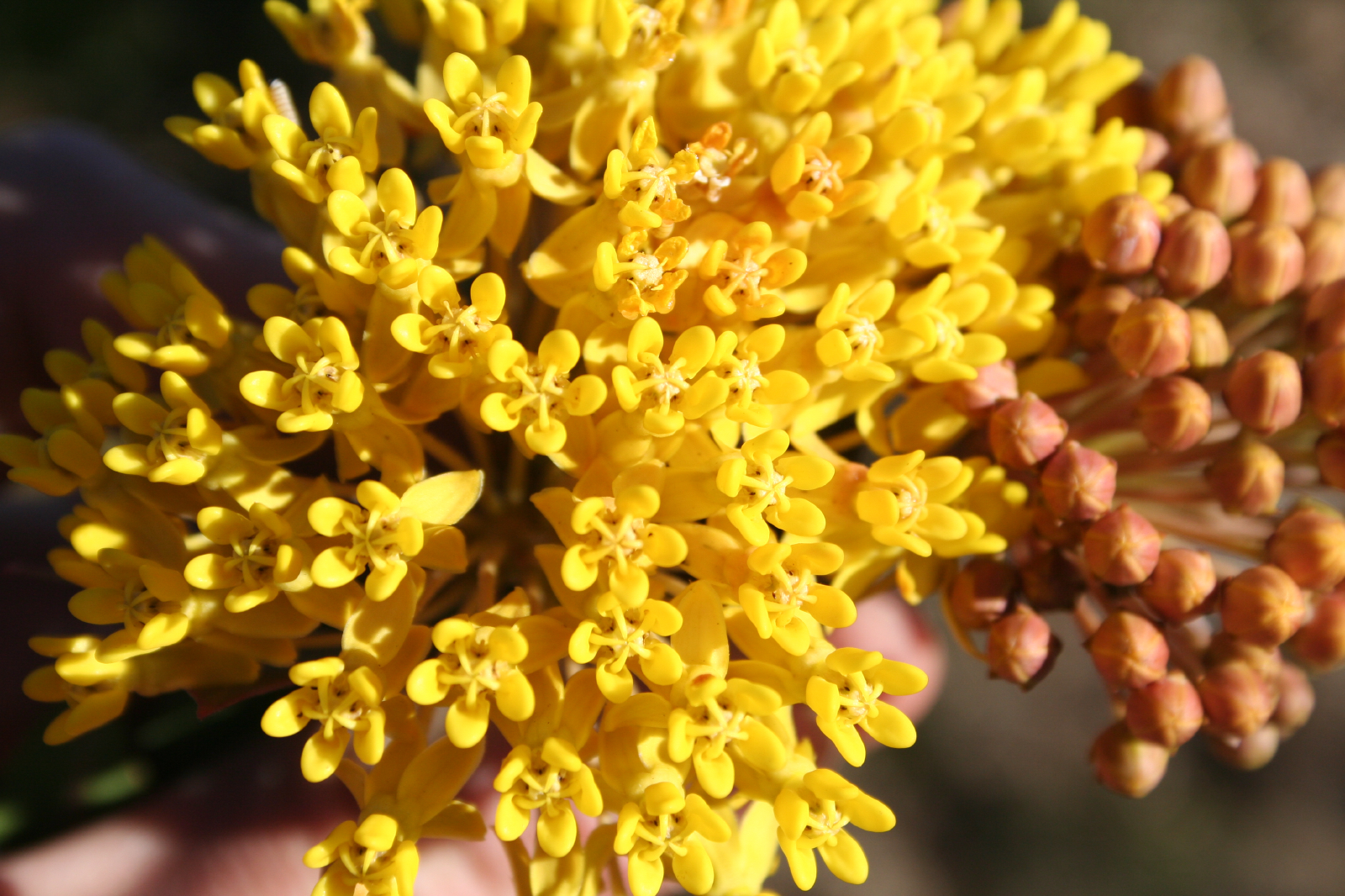 Shockingly yellow flowers caught my attention as we drove down this dirt road from Serrano to Nuevo Mundo. These Asclepias plants seemed to have very specific soil requirements. I found them only in rocky areas where the substrate was composed chiefly of tiny fragments of the underlying stone, which was deep red and seemed to be quite rich in iron. Still trying to track down the species identification.